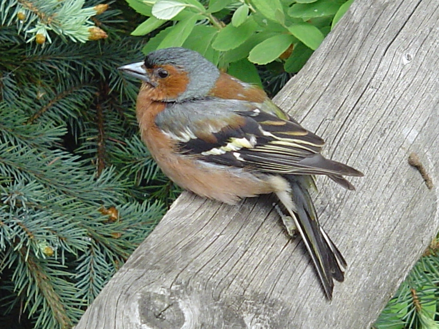 Male chaffinch